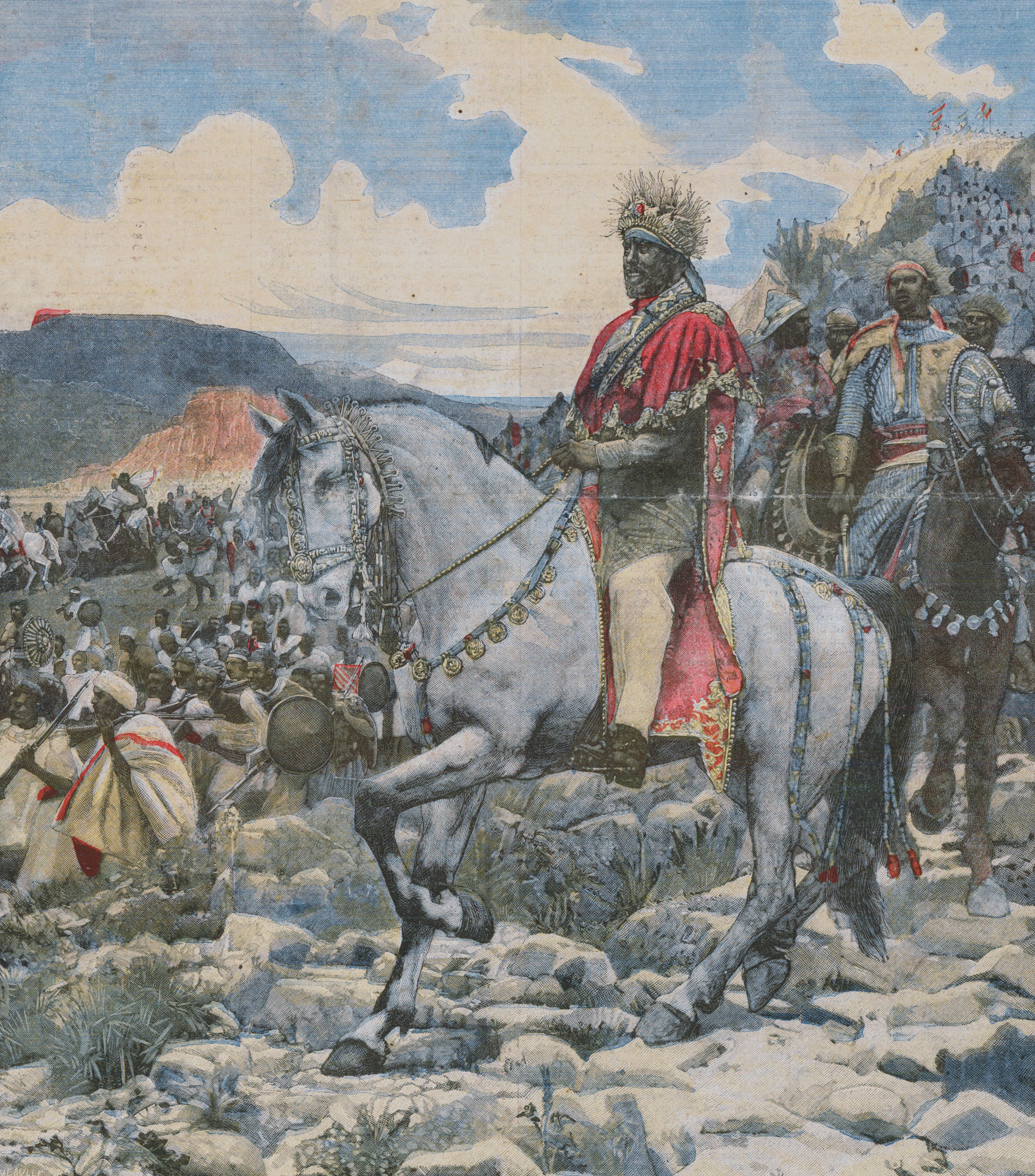 Page from old french newspaper "Le Petit Journal" depicting Menelik II at the battle of Adwa